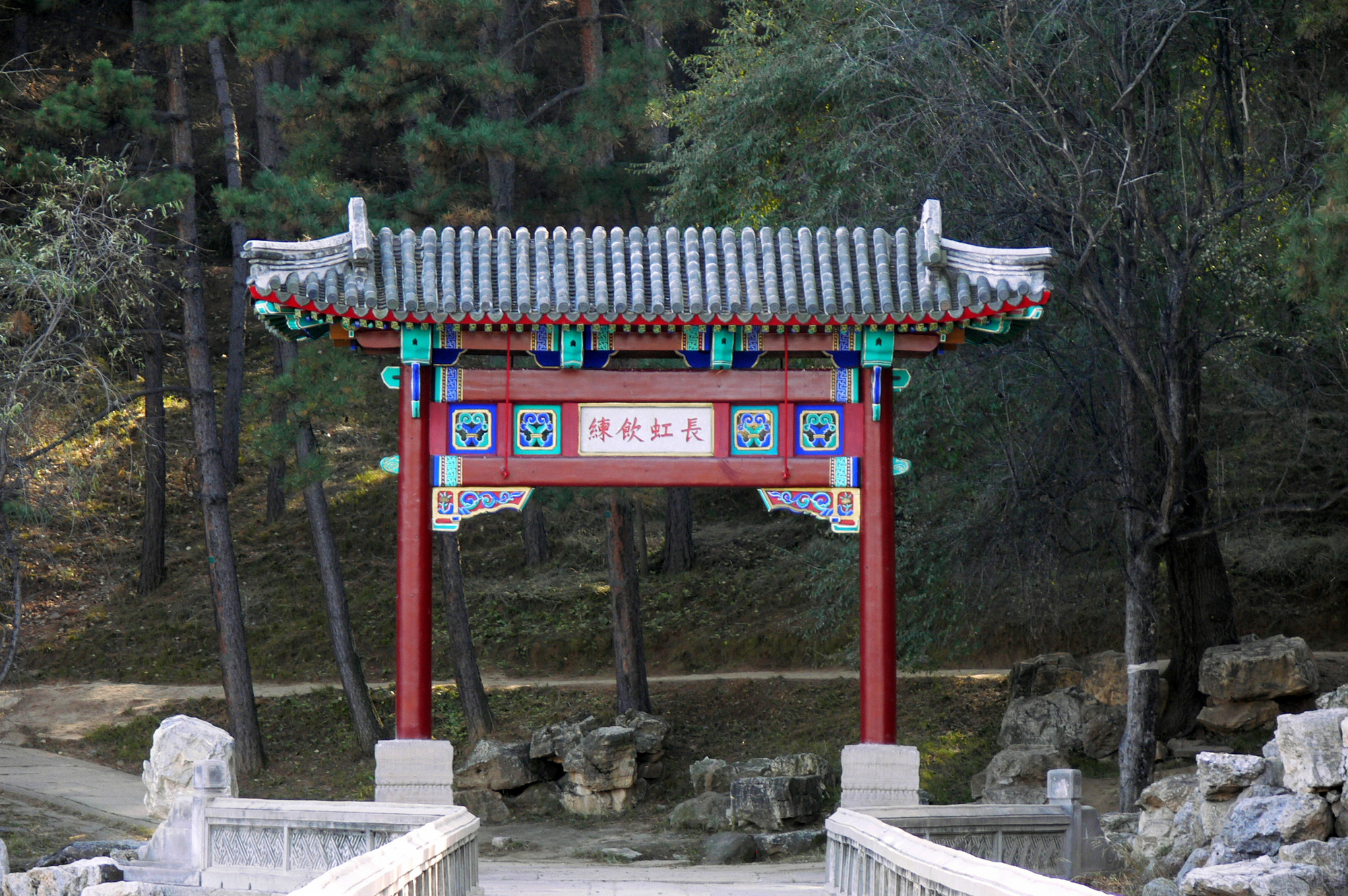 A Pailou in Mountain Resort